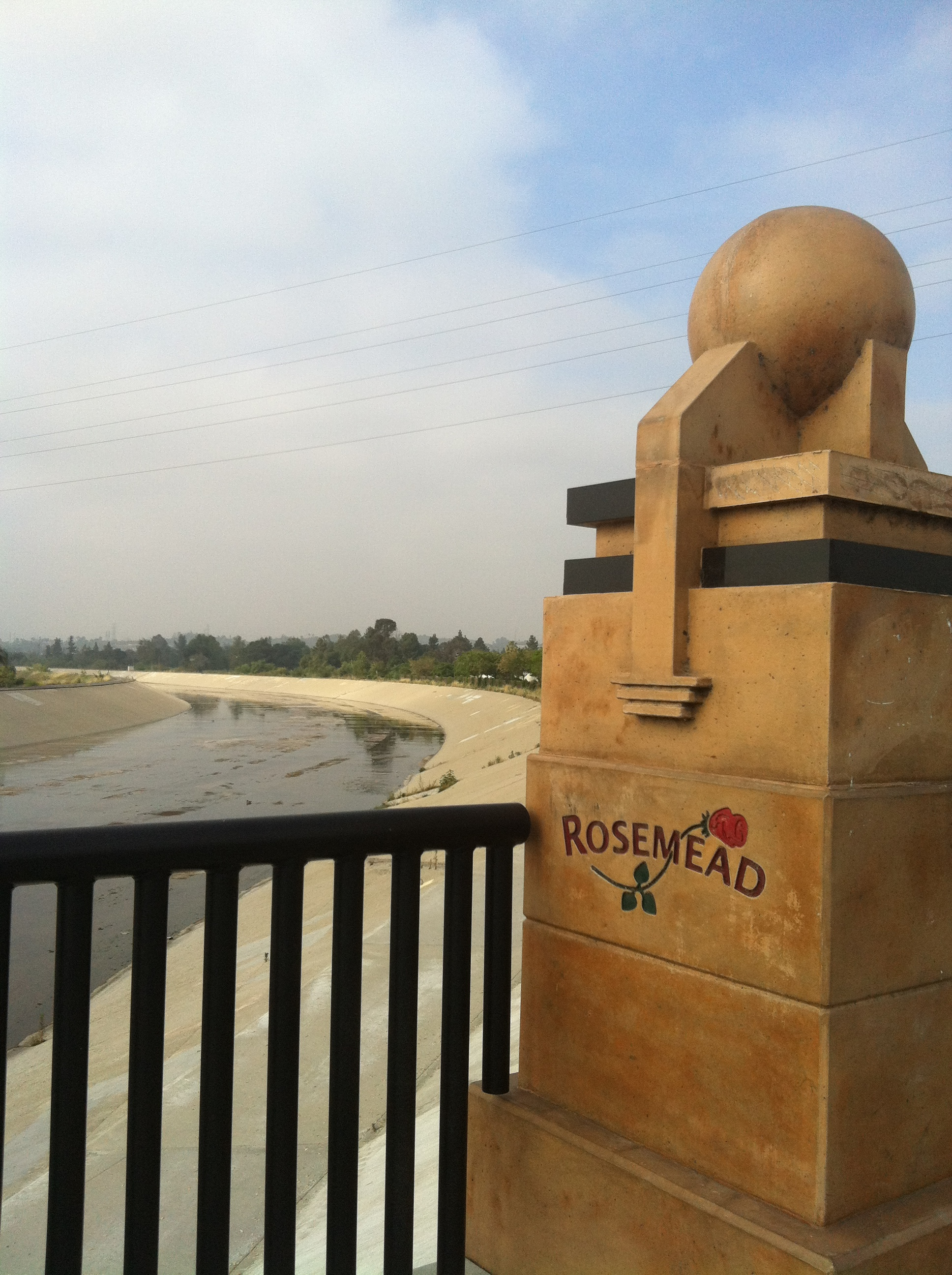 Rio Hondo at Garvey Avenue in Rosemead, California